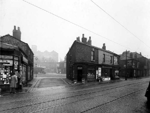 Photograph taken on 31 January 1938 of the junction of Meanwood Road and Bulmer Street in Leeds, West Yorkshire, England. It shows tramlines and shops in the foreground on Meanwood Road, and the massive and probably odorous Ashfield Leather Works in the background. In the back-to-back houses behind the Ashfield Works, Will Scott (1893-1964), was born. He was author of The Cherrys series of children's books, and of the stage play The Limping Man, which was made into two films.